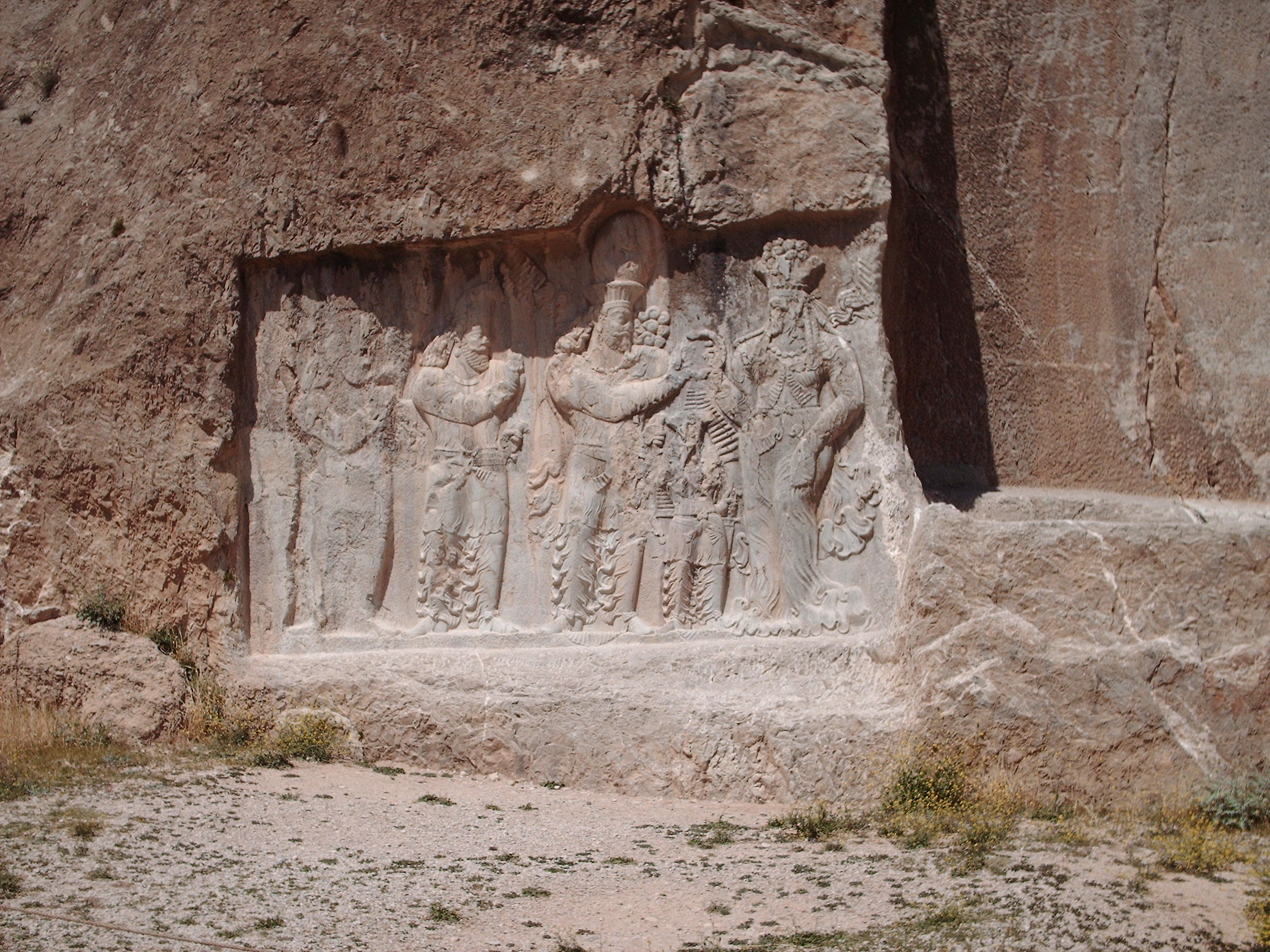 Sasanian king Narseh's rock relief at Naqsh-e Rostam (said Naqsh-e Rostam VIII), celebrating his investiture by godess Anahita. Iran, City of Marvdasht, Province of Fars.